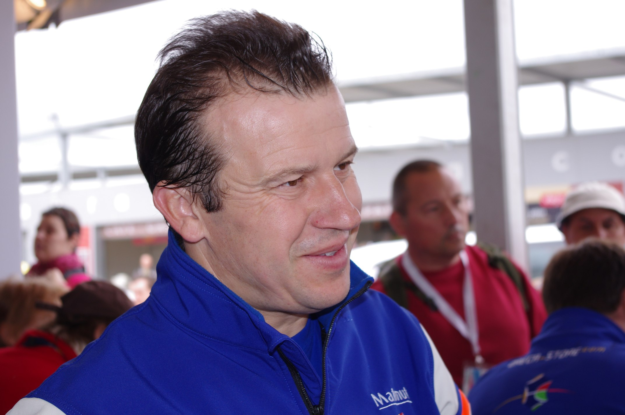 Olivier Panis at the 2011 Le Mans 24 Hours